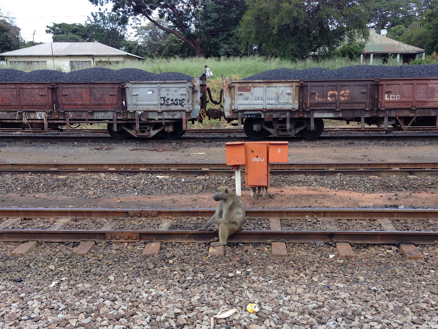 Baboon at Victoria Falls station, Zimbabwe